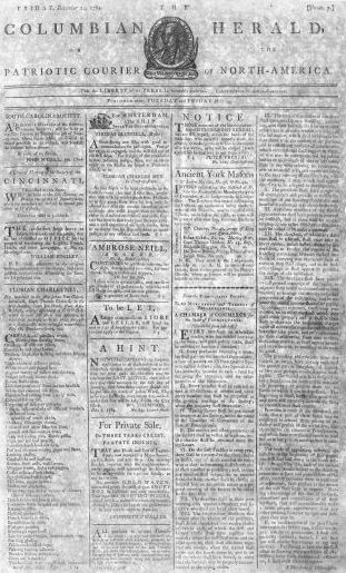 The Columbian Herald or the Patriotic Courier of North-America; Date: 12-24-1784 (Charleston, South Carolina)